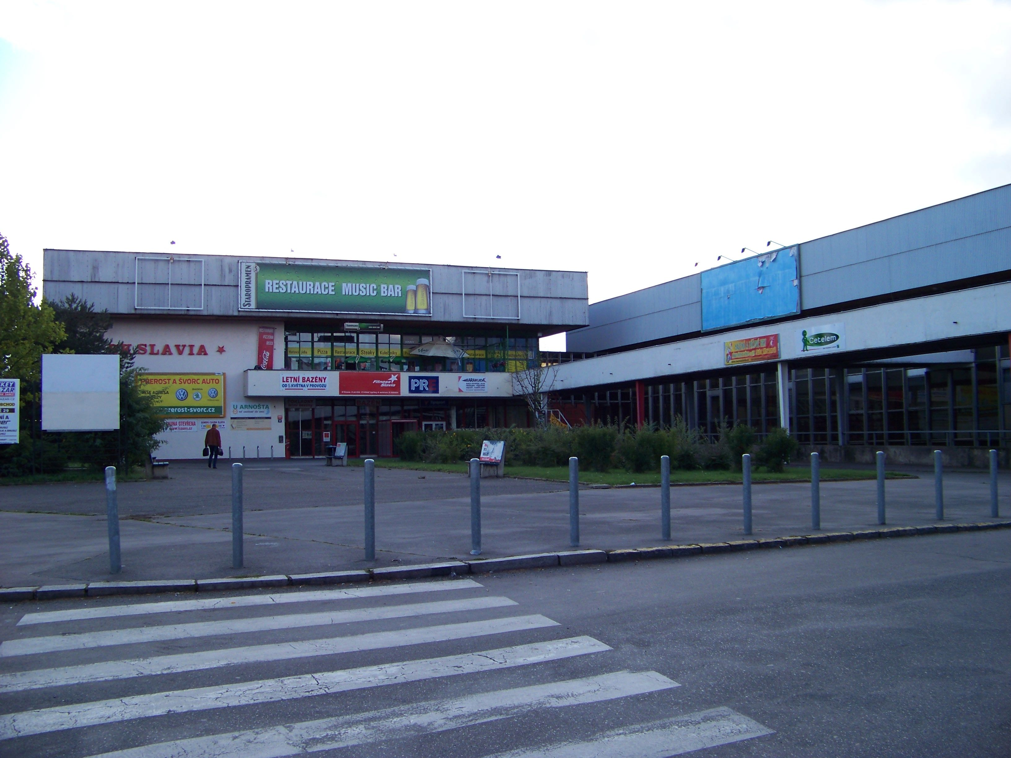 Prague-Vršovice, the Czech Republic. Kubánské náměstí, a swimming pool Eden of SK Slavia.